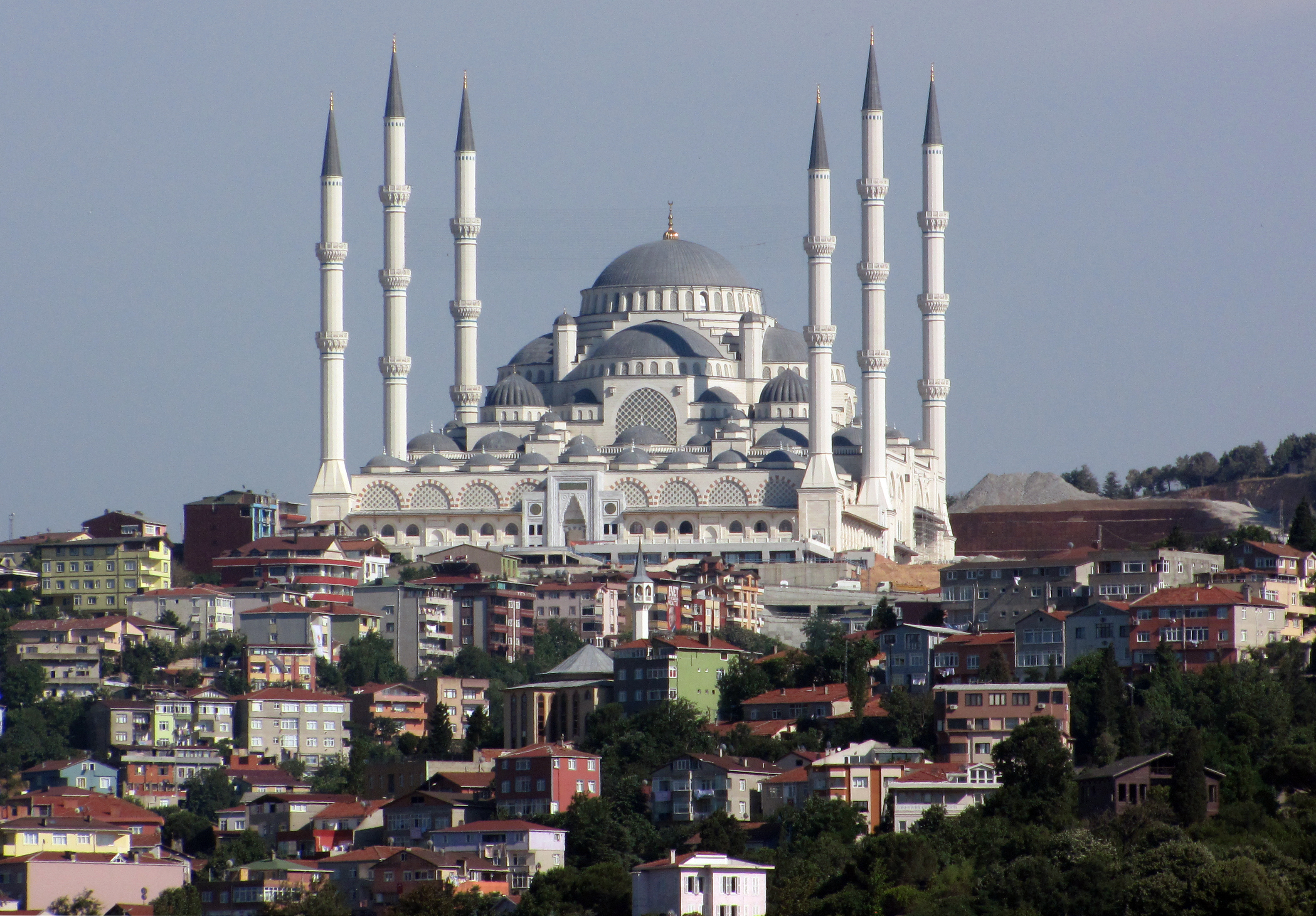 Çamlıca Republic Mosque as seen from the Bosporus.